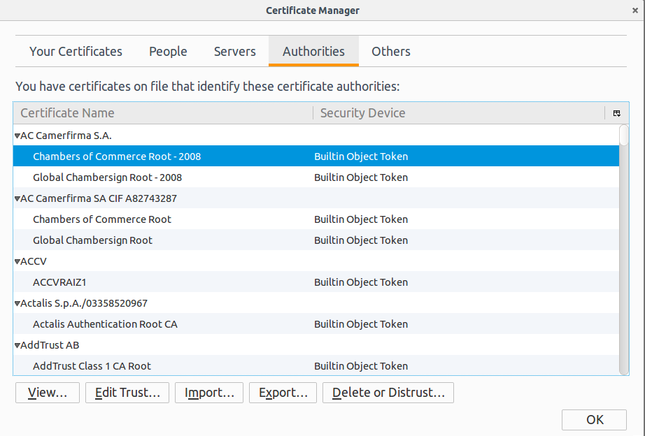 Certificate Manager user interface on Firefox of Ubuntu